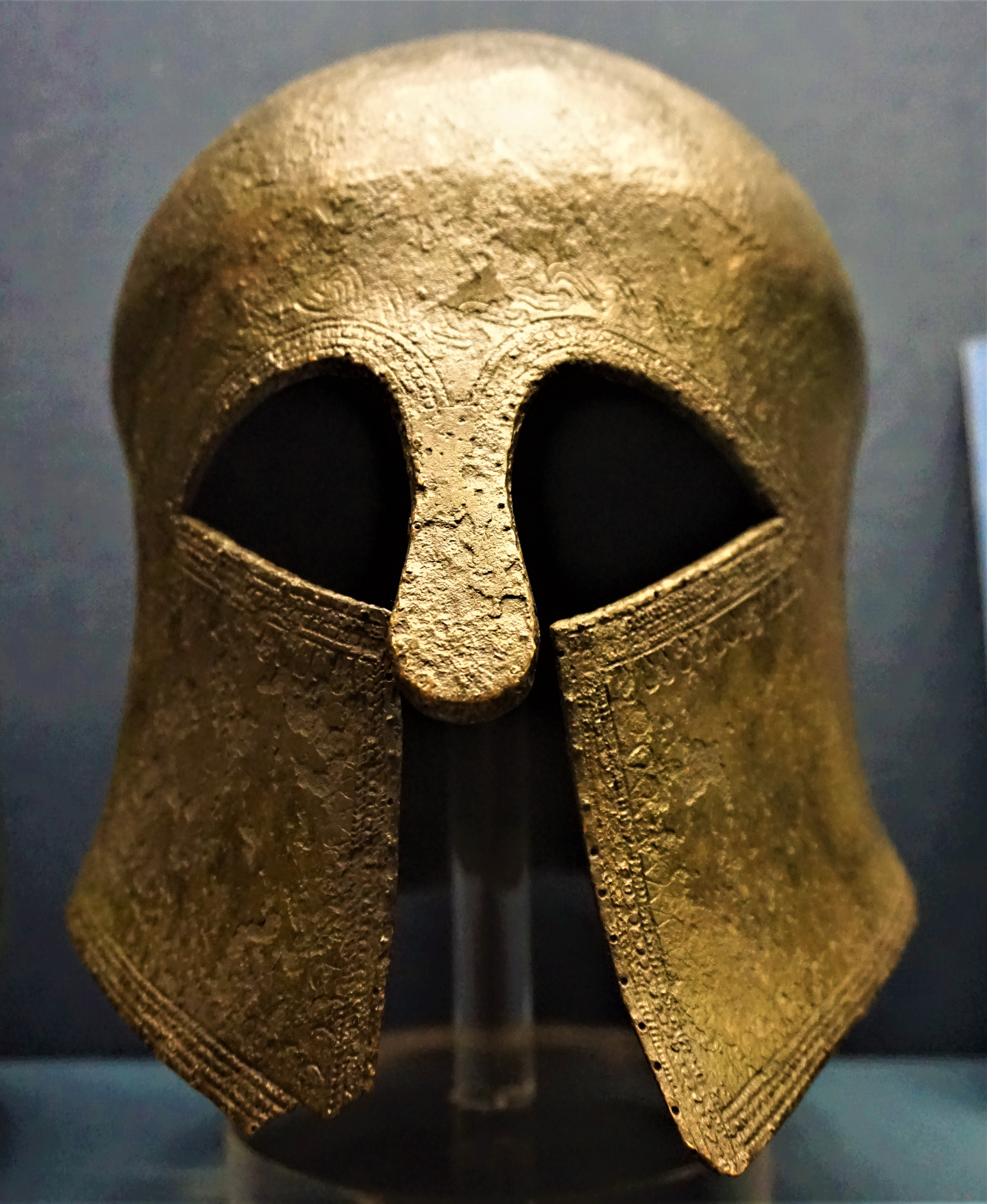 Corinthian Helmet - Benaki Museum, Athens - Joy of Museums - for details